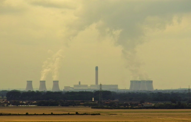 Drax Power Station